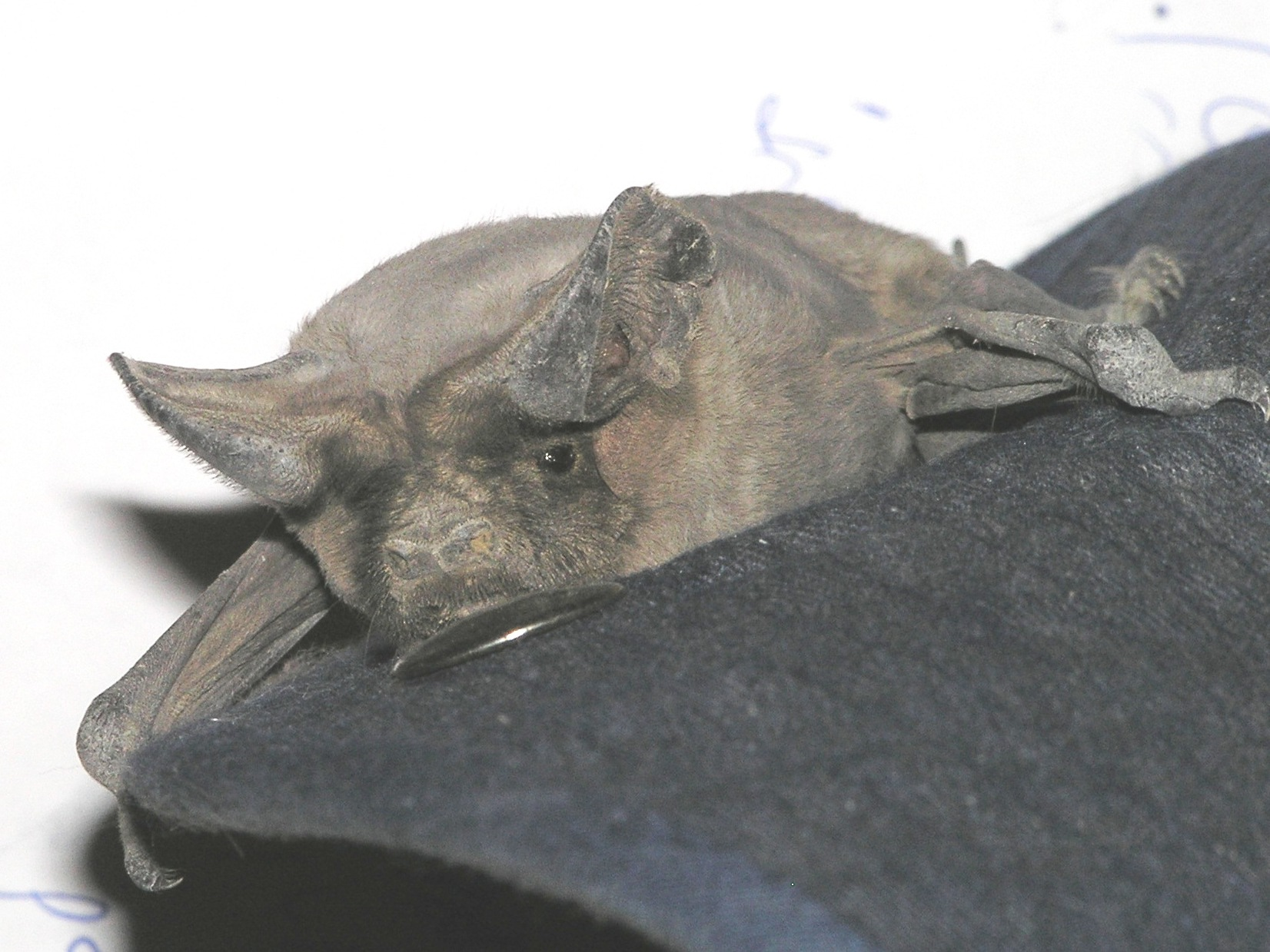 European Free-tailed Bat (Tadarida teniotis) in Beer Sheva, Israel.